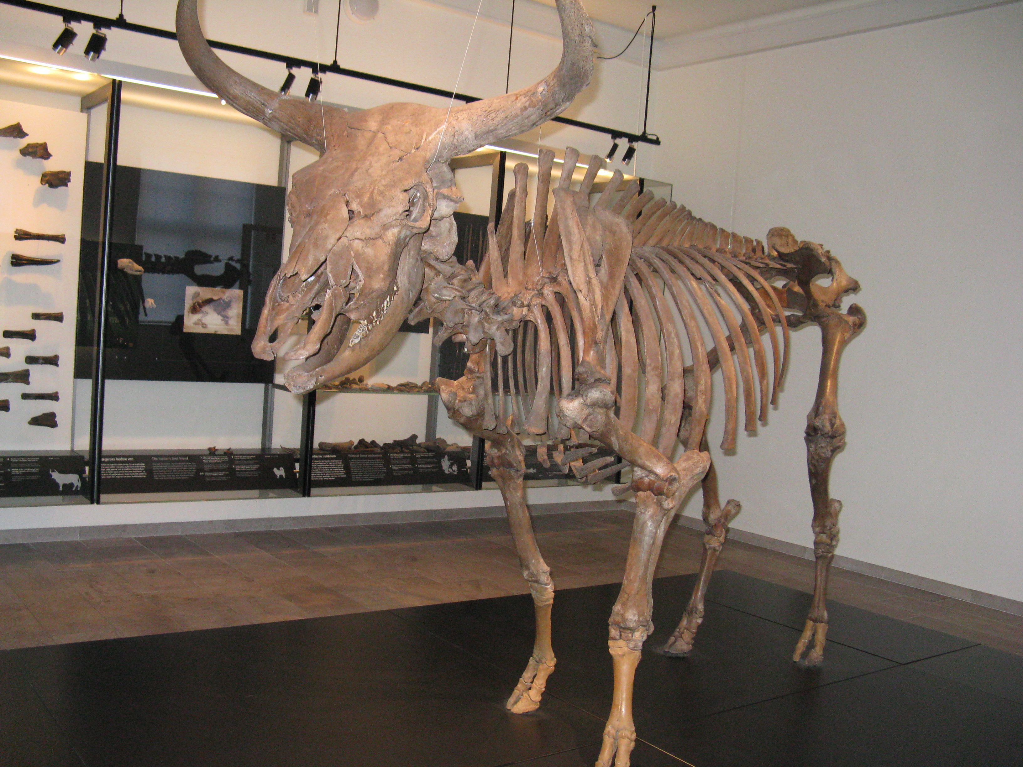 An Auroch in the Museum